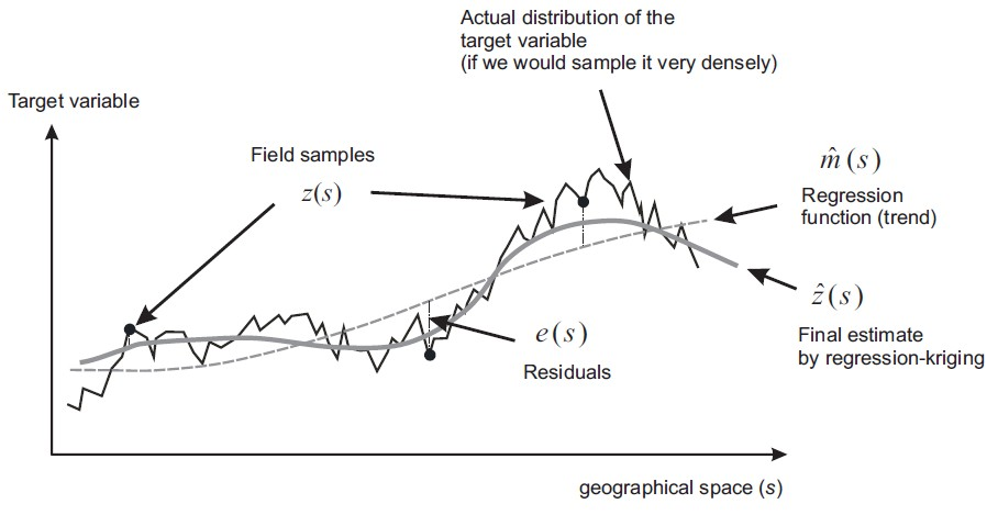 The scheme showing the universal model of spatial variation with three main components